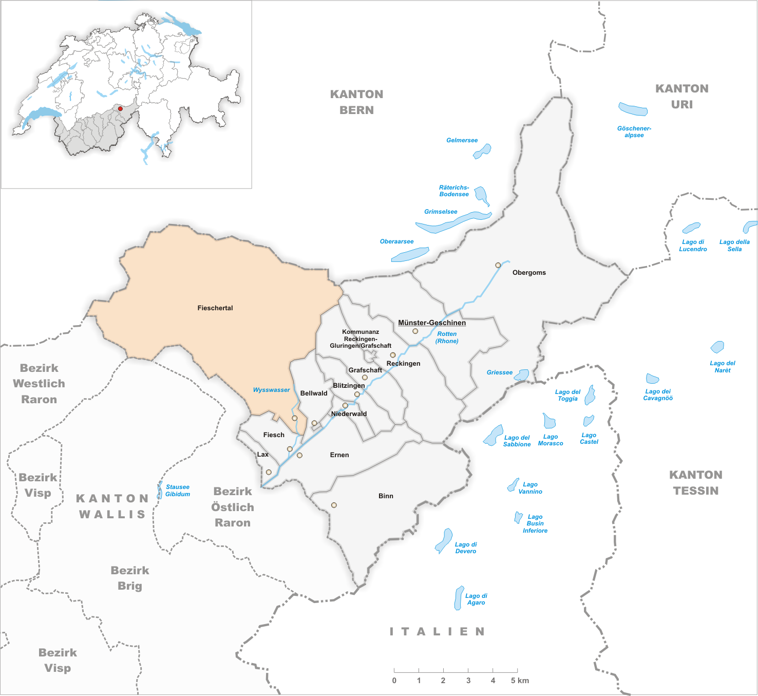 Municipality Fieschertal